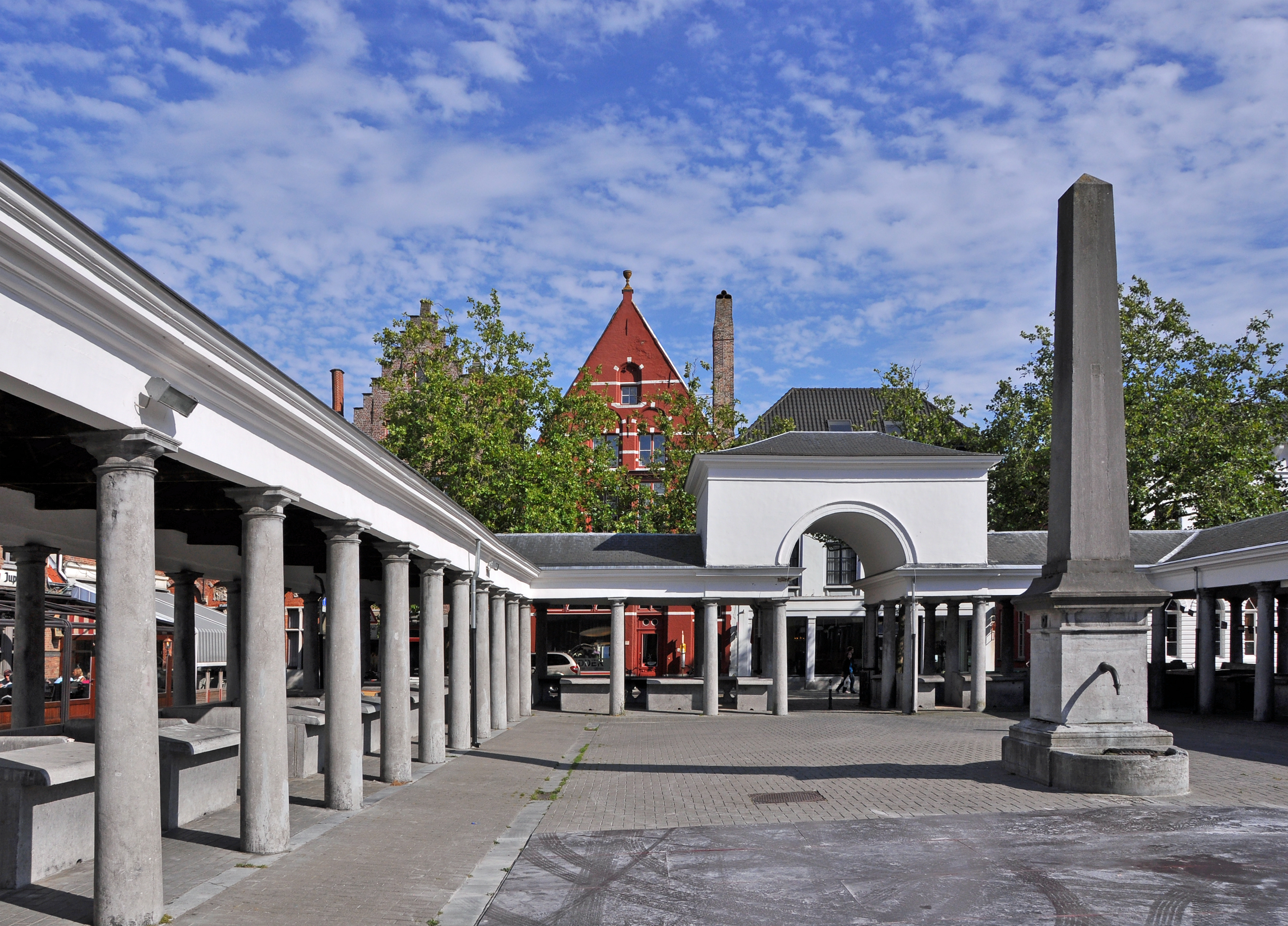 Bruges (Belgium): the Vismarkt (Fish Market)